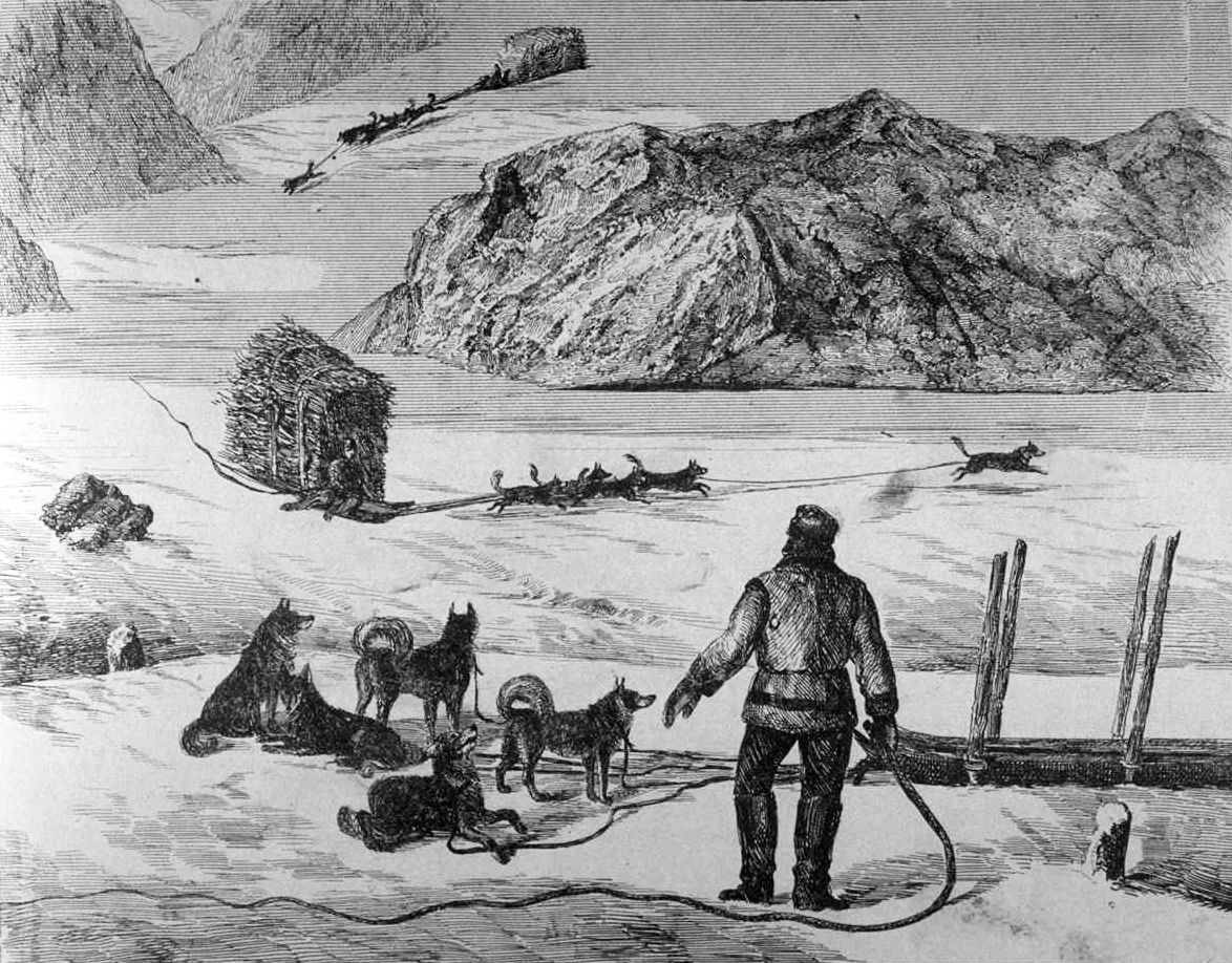 « Drawing Firewood on Dog Sledges »